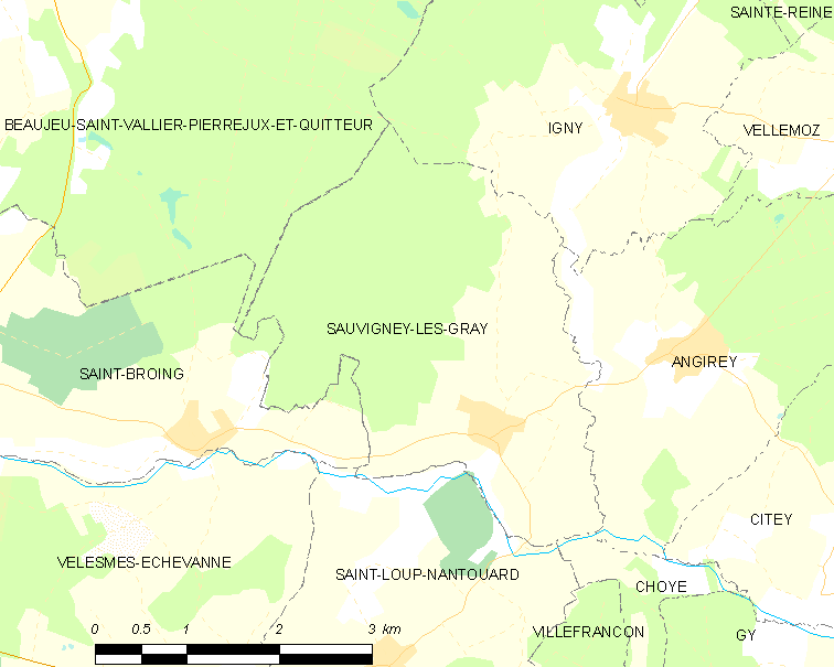 Map of French municipality